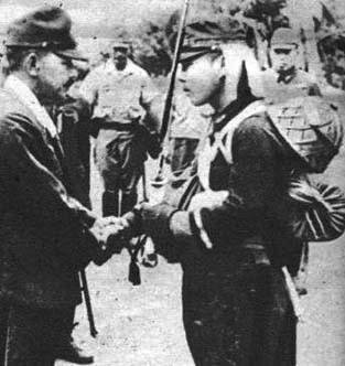 Kaoru Airborne Troops sent off by Lieutenant General Tominaga